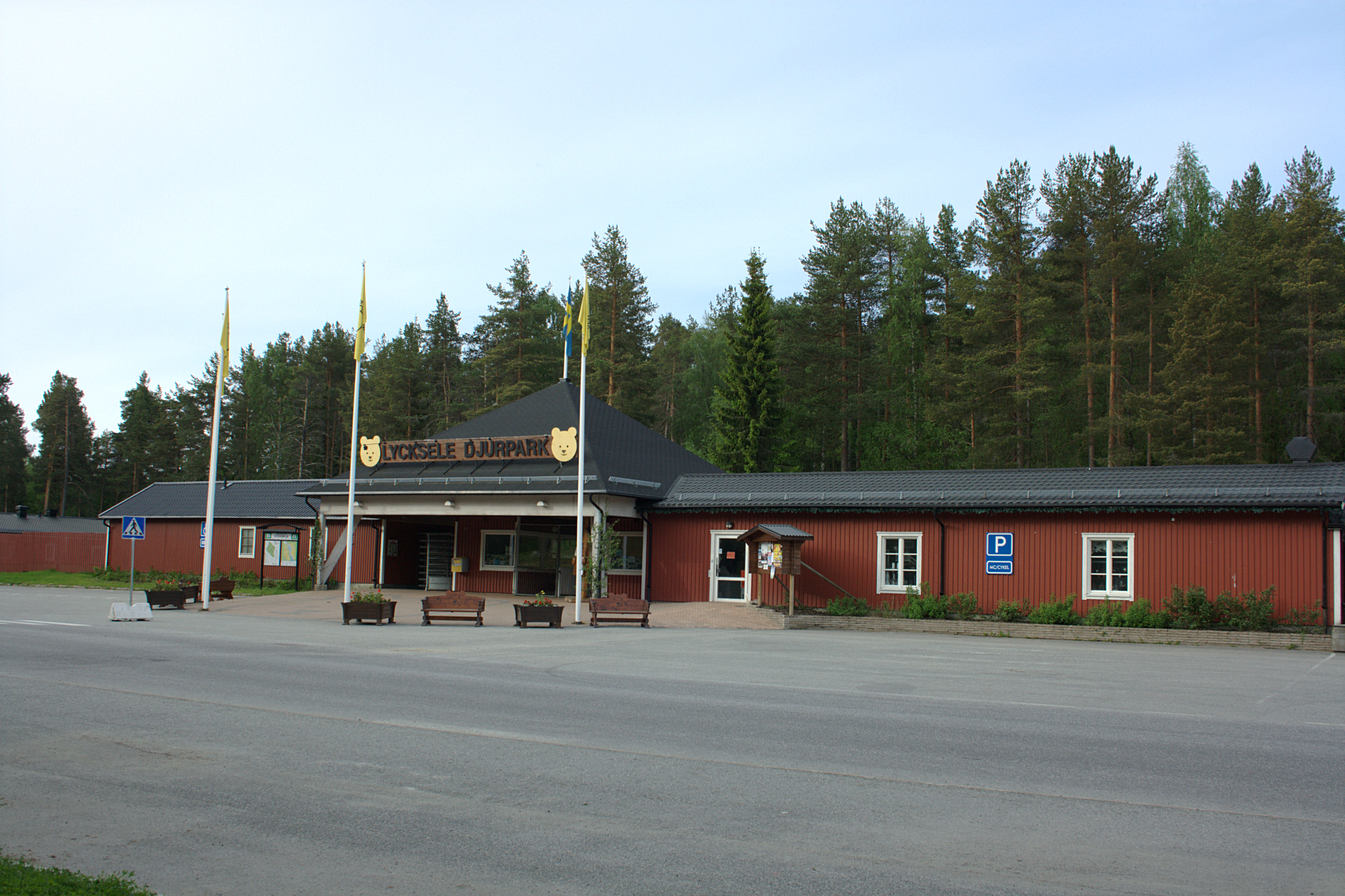 Lycksele Zoo